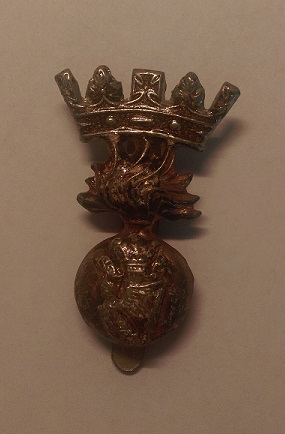 Photo of Royal Irish Fusiliers Cap Badge from personal collection